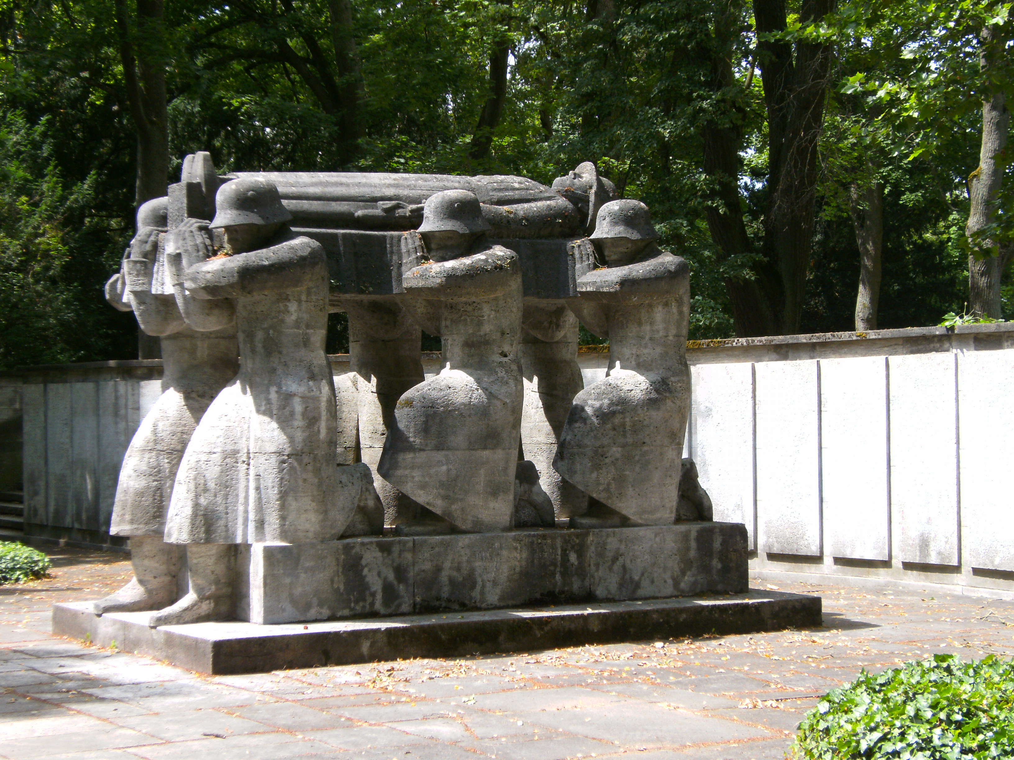 Würzburg, Germany: Memorial in the Ringpark Würzburg between Husarenstraße and Rennweg.